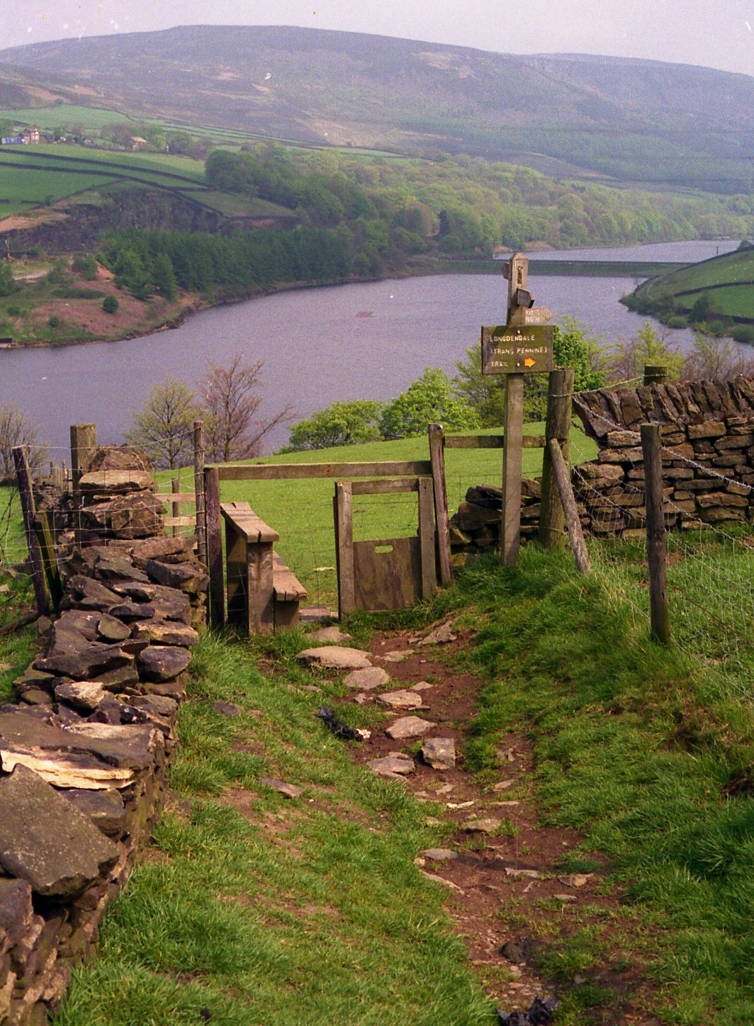 Padfield - A stile with a view